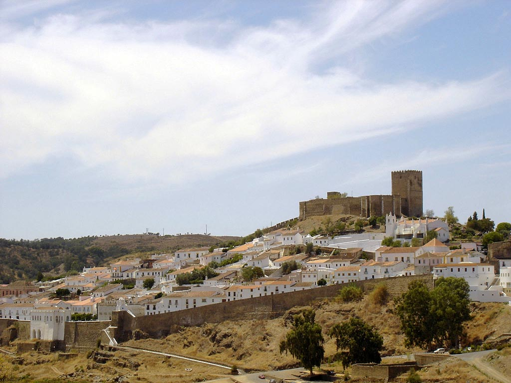 Mértola castle and town in Portugal